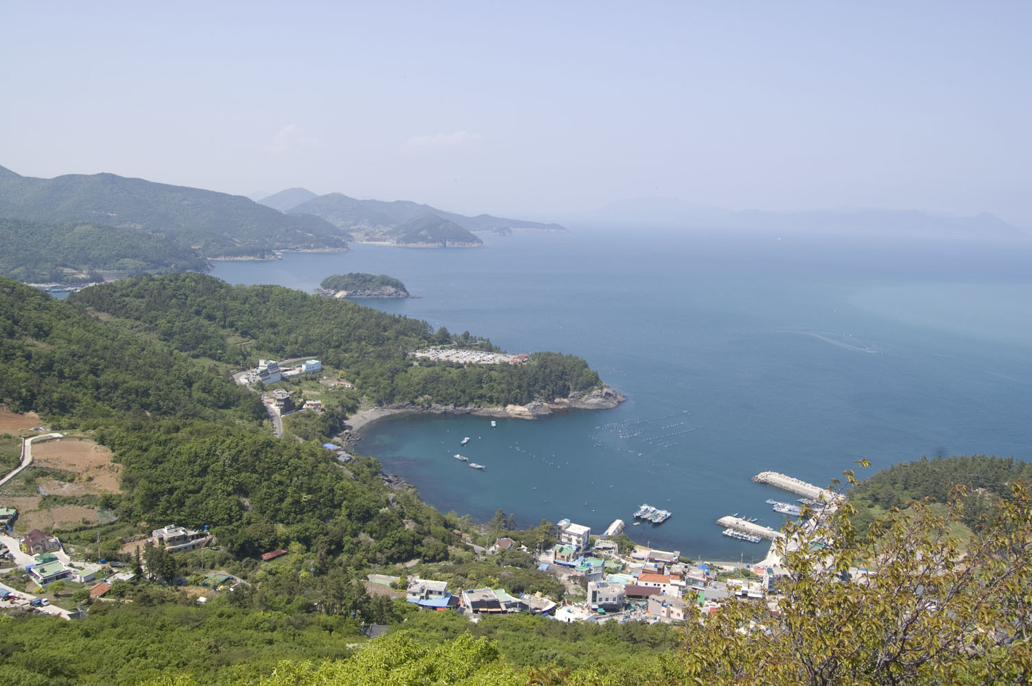 touristy fishing village down below